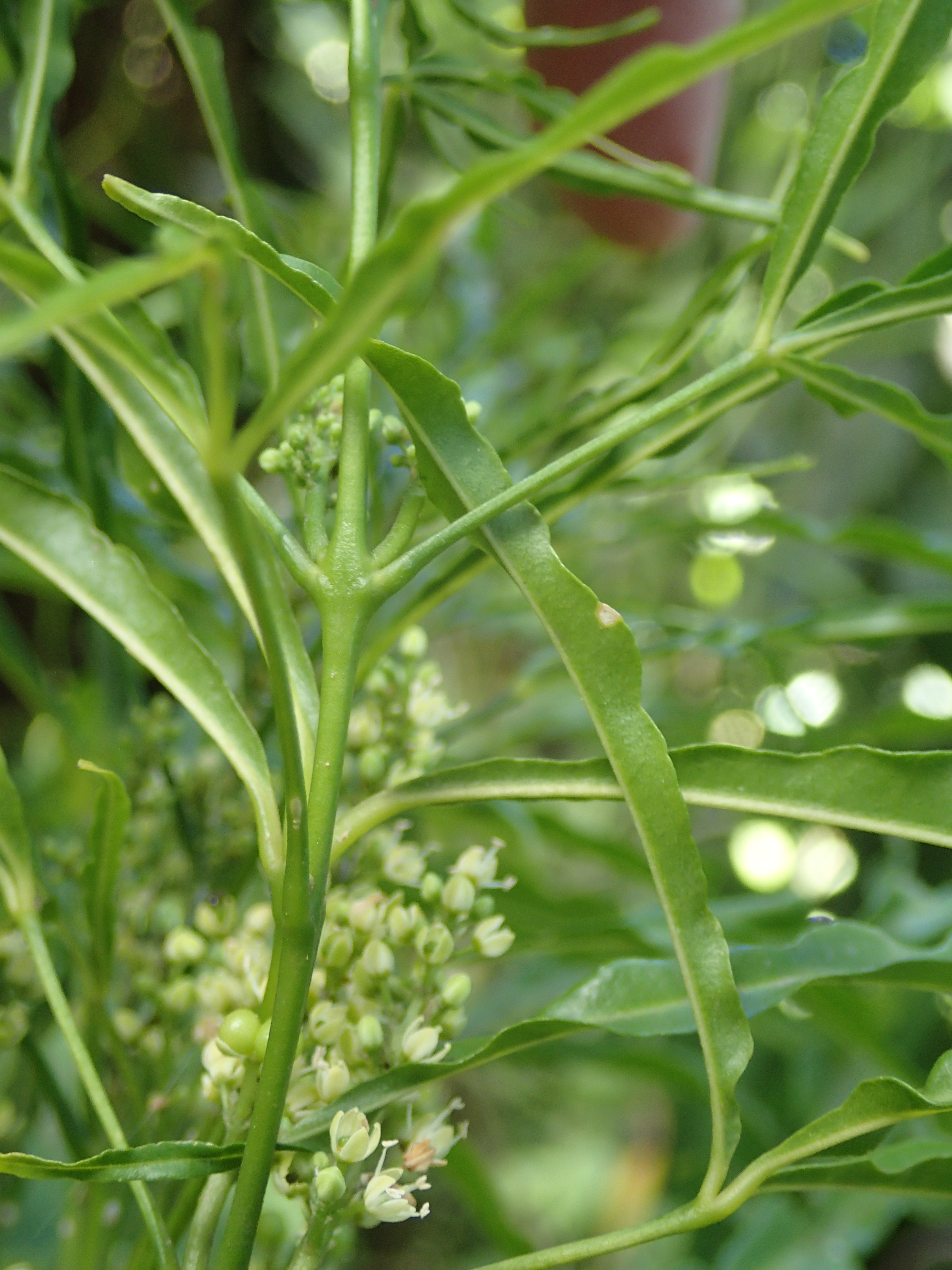 Details of Melicope denhamii cultivated in Cayenne (French Guyana)